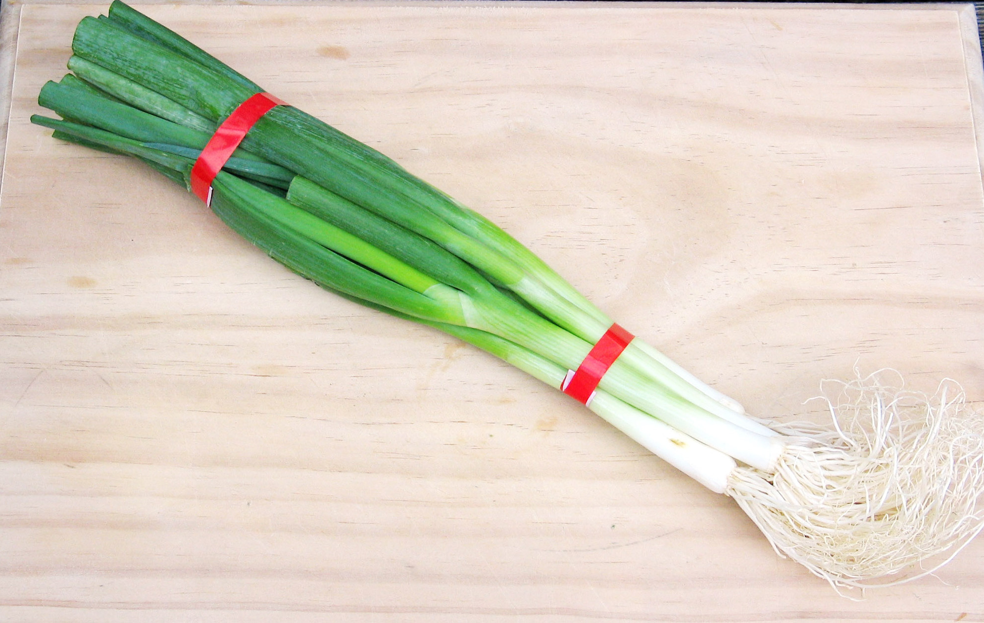 This is a bunch of spring onions (also known as scallions or shallots).